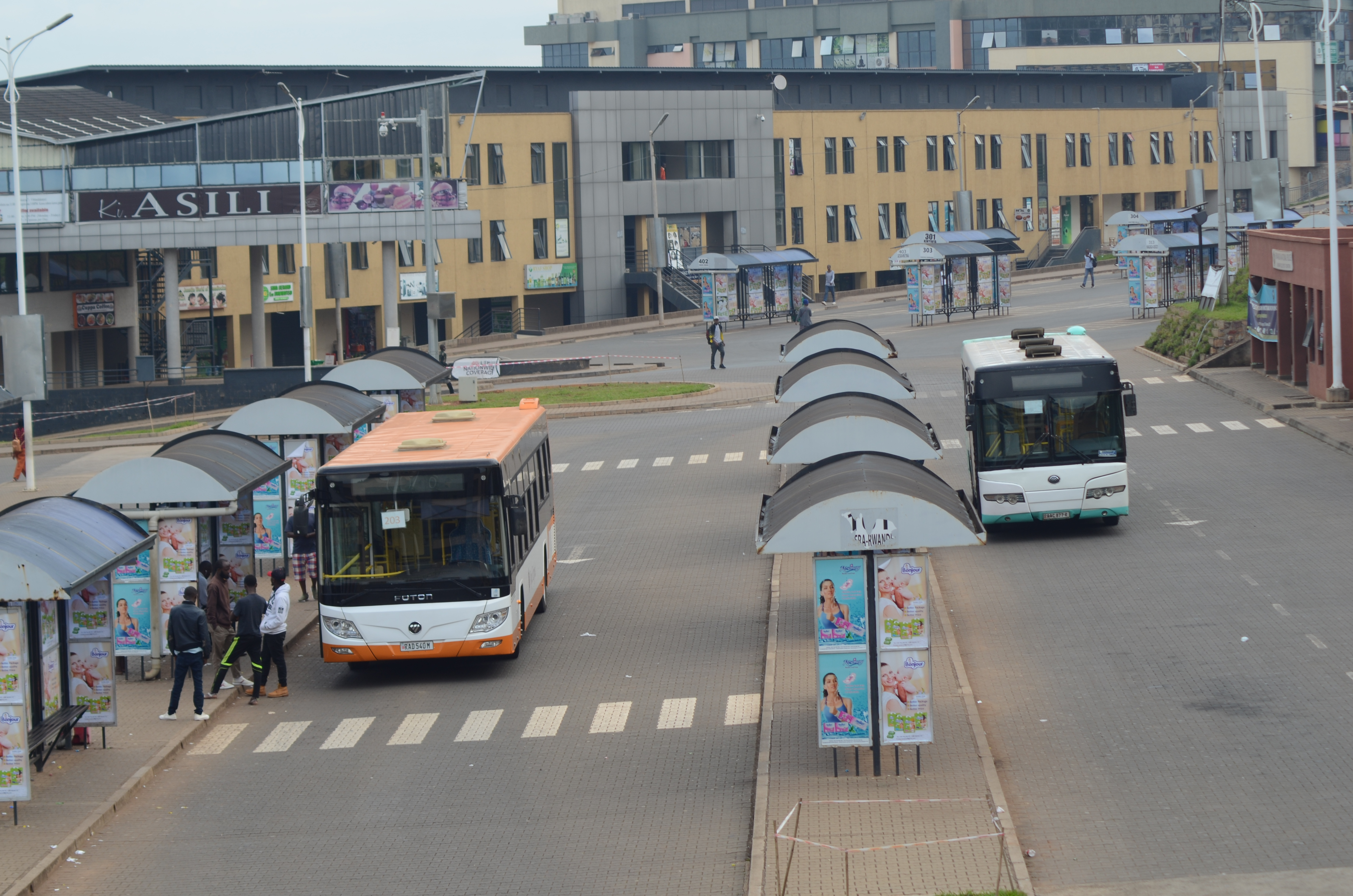 This is an image with the theme "Africa on the Move or Transport" from: Rwanda